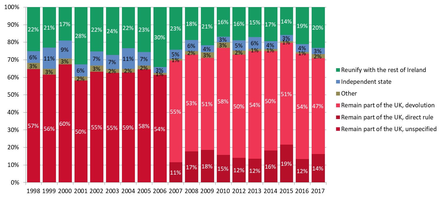 Results of the constitutional preference question (NIRELAND, NIRELND2) of the NI Life and Times Survey between 1998 and 2017 - [1]. Excludes 'don't know' responses. 00 Remain part of the UK, unspecified – Shade of red used in the Flag of the United Kingdom 00 Remain part of the UK, direct rule – Colour based on the shade of red used in the Flag of the United Kingdom 00 Remain part of the UK, devolution – Colour based on the shade of red used in the Flag of the United Kingdom 00 Other 00 Independent state – Shade of blue used in the Northern Ireland Assembly logo 00 Reunify with the rest of Ireland – Shade of green used in the Flag of Ireland